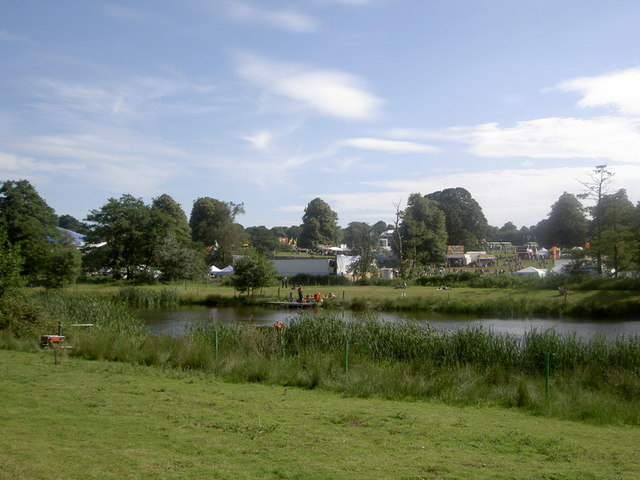 Henham Park, Latitude Festival Henham Park began hosting the Latitude festival in 2006. This picture shows the event in 2007, when over 20,000 people enjoyed bands including Arcade Fire, plus poetry, theatre and comedy . The history of Henham Park is fascinating - .